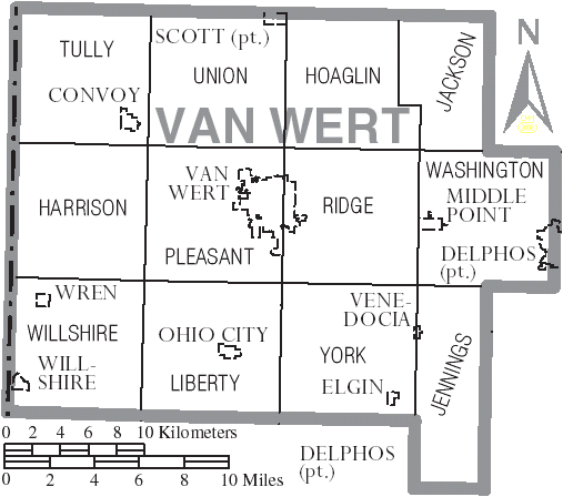 Map of Van Wert County, Ohio, United States with township and municipal boundaries